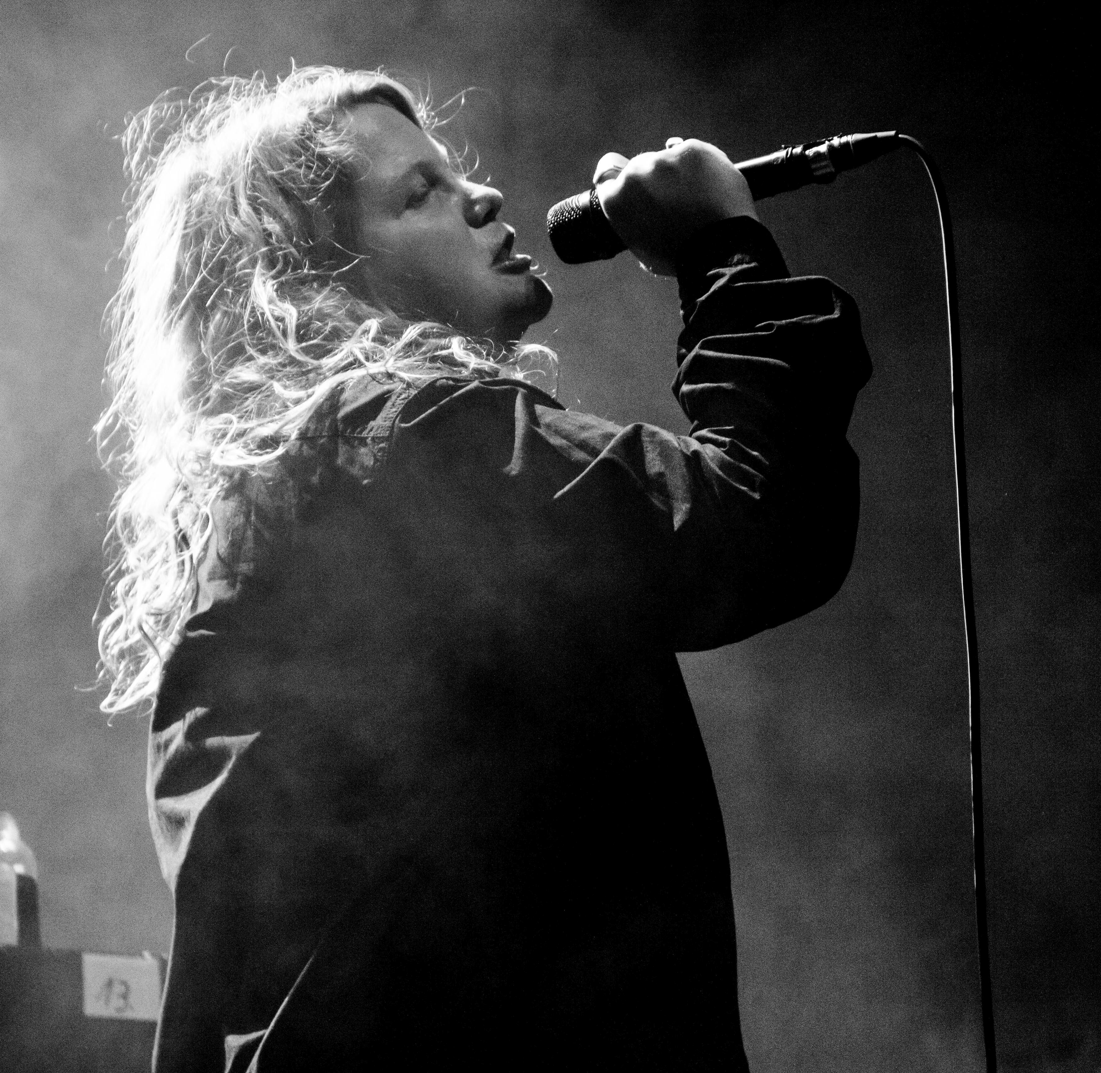 Kate Tempest at Haldern Pop Festival 2017